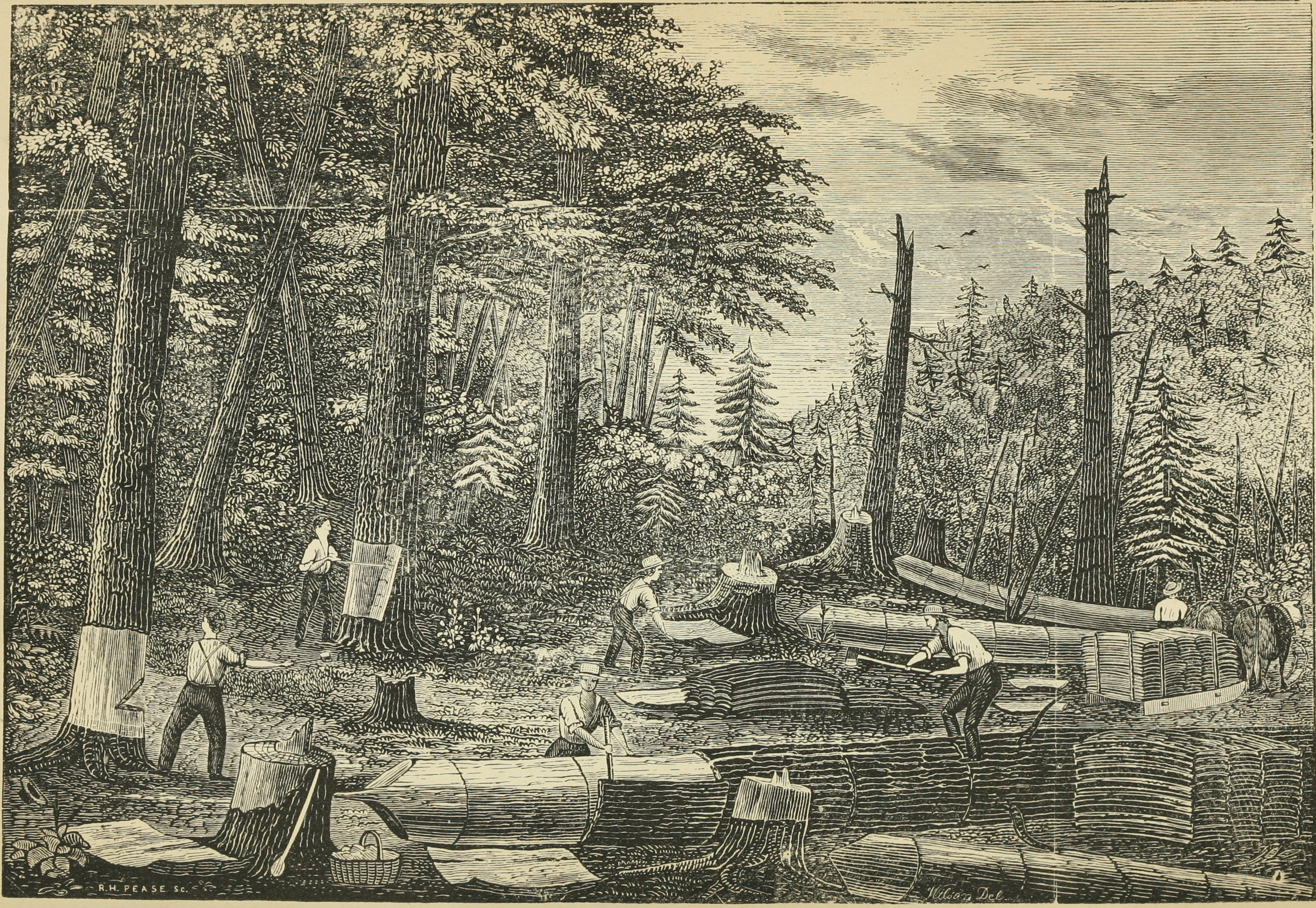 Drawing of peeling bark for the tannery in Prattsville, New York during the 1840s, when it was the largest in the world. Text below the image read "Peeling, and piling hemlock bark, for Prattsville Tannery." It was partially obscured with the top half of the letters cut off, but I think that's what it said (piling could be wrong).